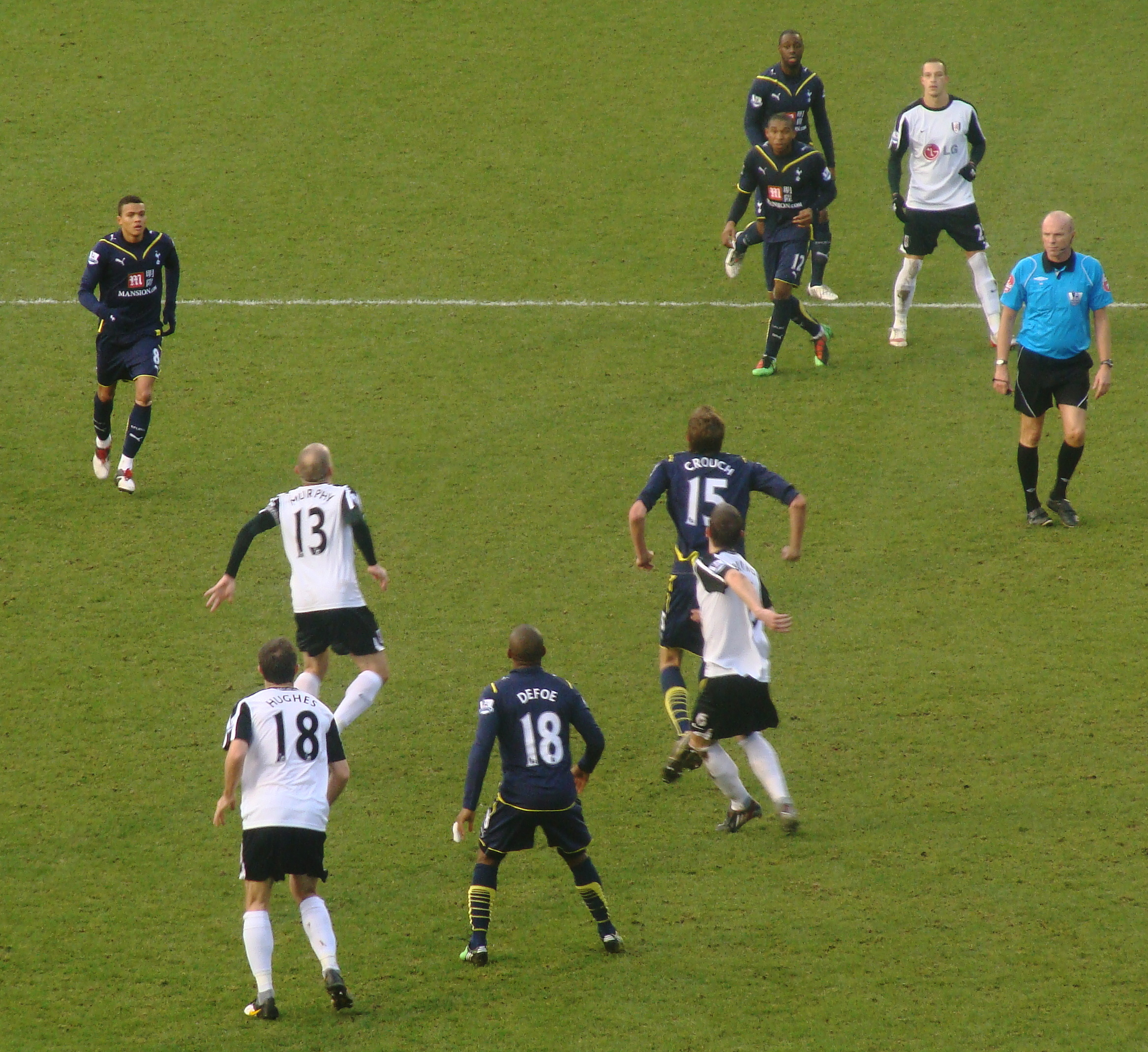 Match between Fulham F.C. and Tottenham Hotspur F.C., December 2009